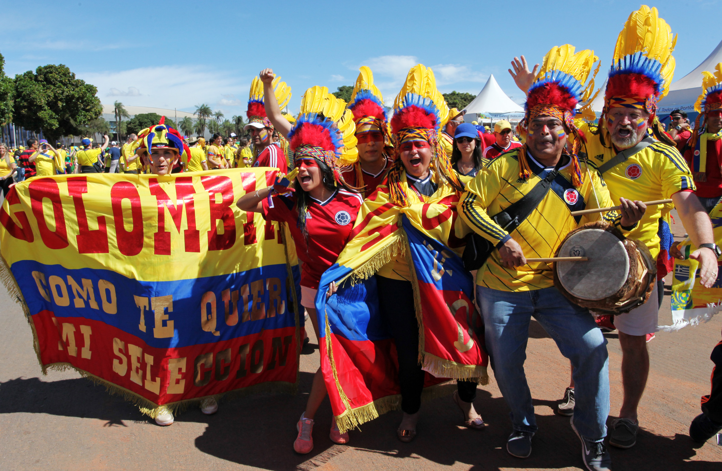 Colombia and Ivory Coast match at the FIFA World Cup 2014-06-19